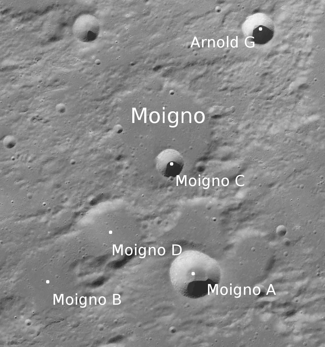 Moon crater Moigno with satellite features (detail of LRO - WAC north pole mosaic)